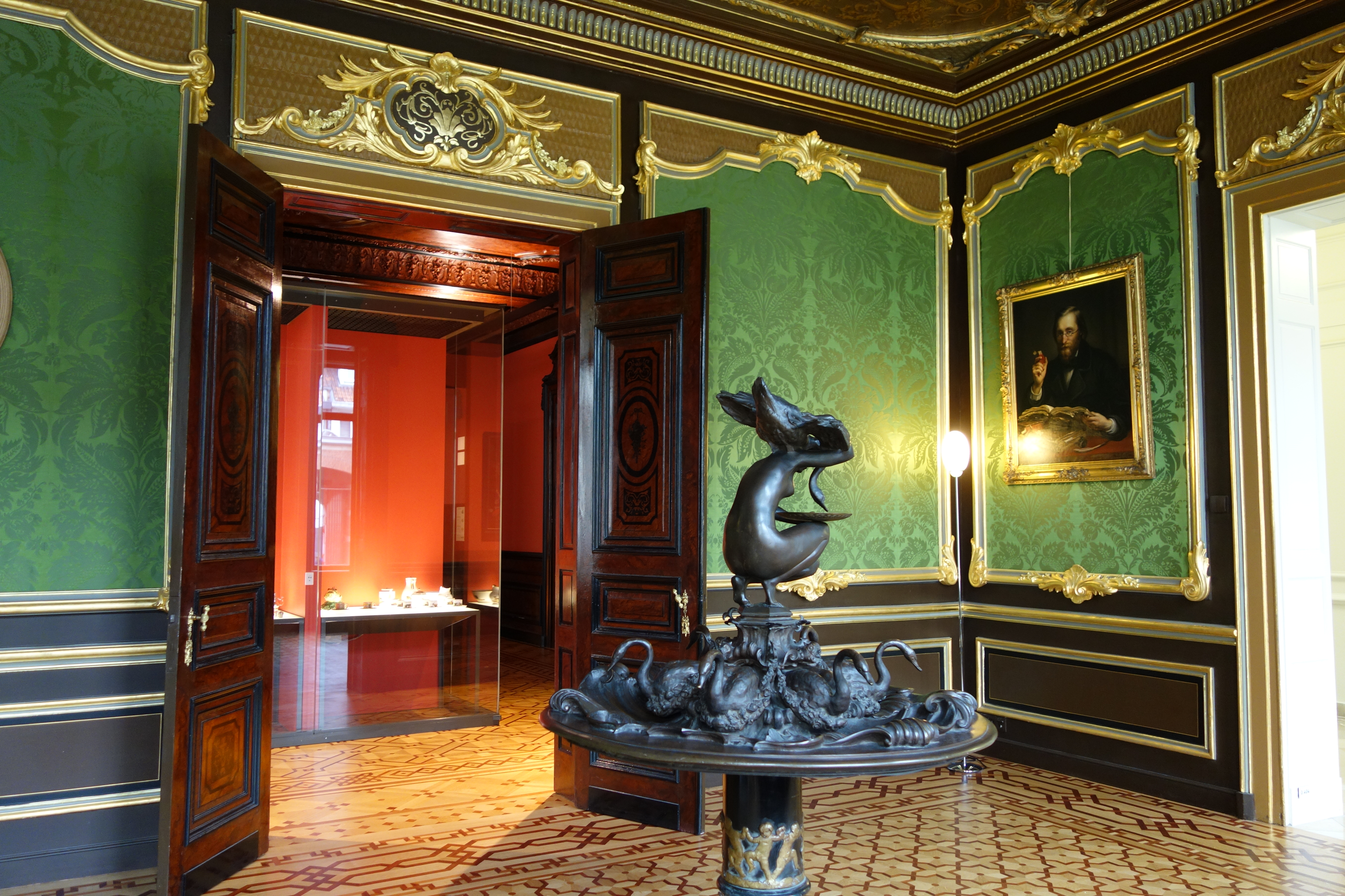 Interior view of Museum M - Leuven, Belgium. Artwork is in the public domain because the artist(s) died more than 70 years ago.